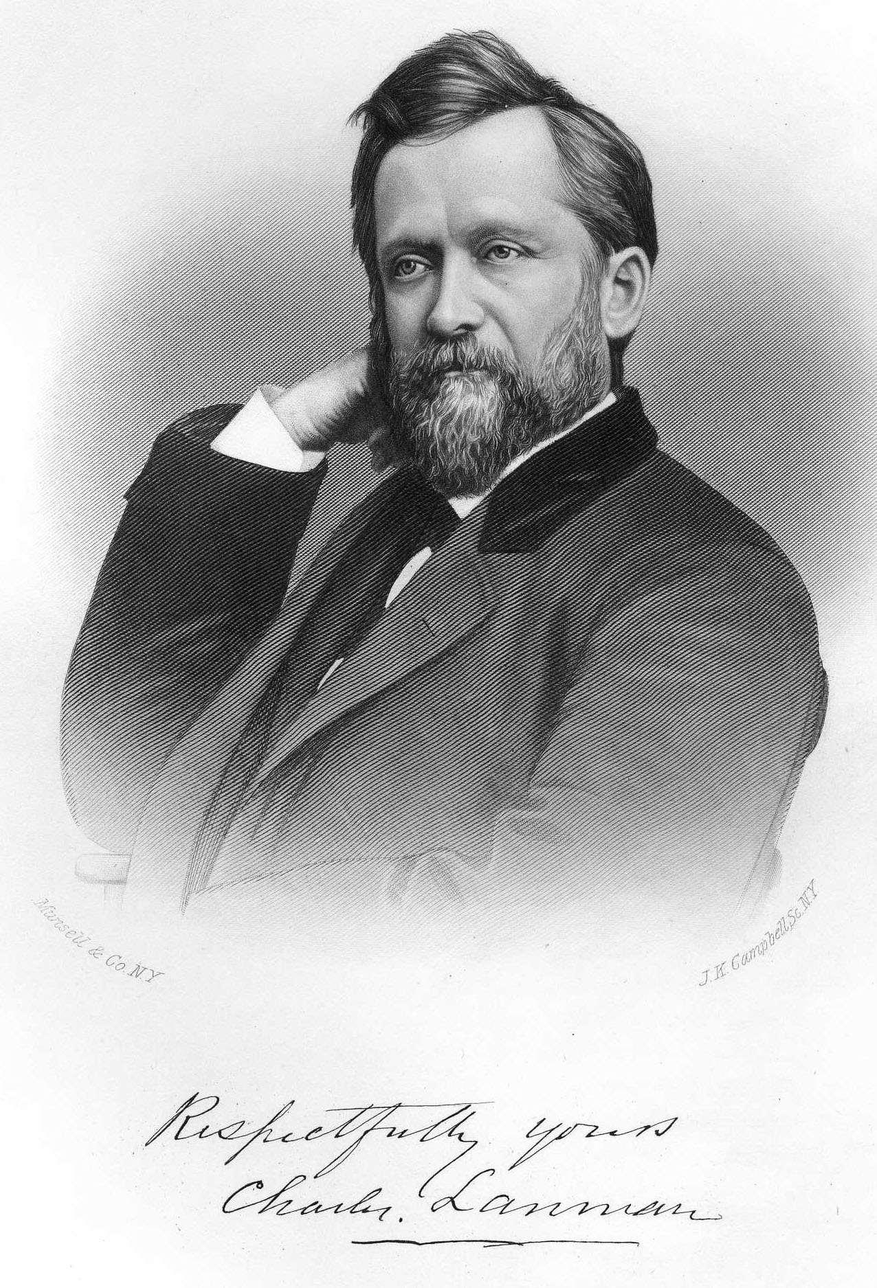 Charles Lanman (explorer, author, librarian) image sent with permission by Monroe County Historical Society archivist, Chris Kull, on 2009-10-07. This article is about Charles Lanman, the librarian and explorer. For the article about Charles Lanman, the Harvard Sanskrit scholar, see Charles Rockwell Lanman.